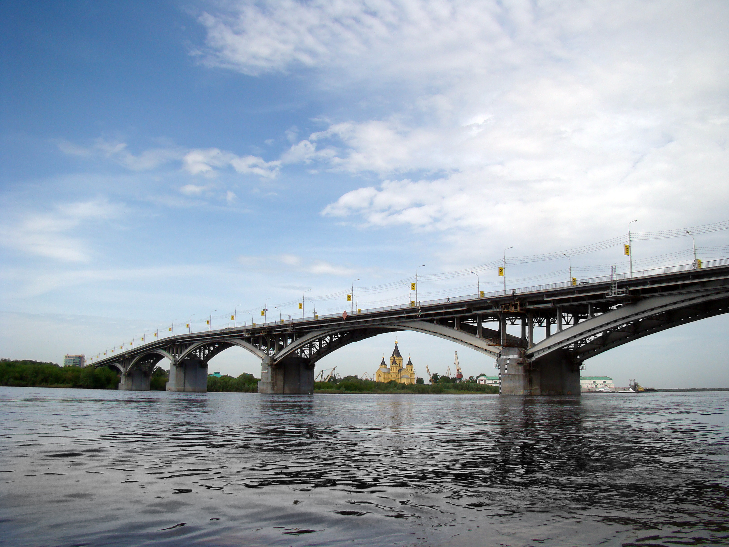 Nizhny Novgorod. View to Kanavino bridge and Alexander Nevsky Cathedral